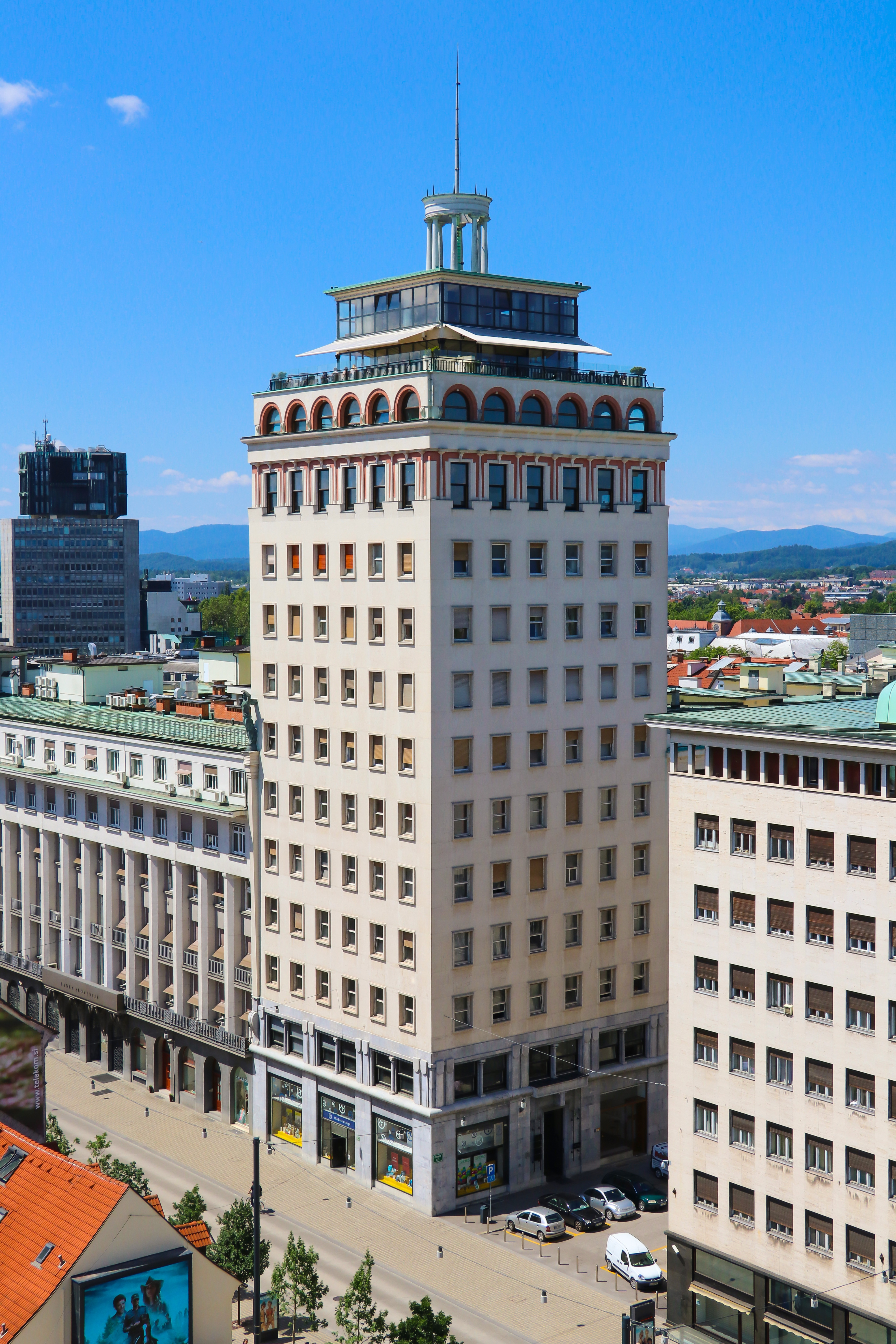 Nebotičnik.